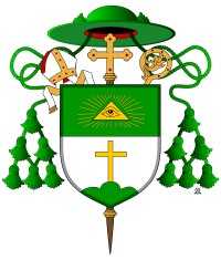 Coat of arms of Vincenc Eduard Milde, Bishop of Litoměřice